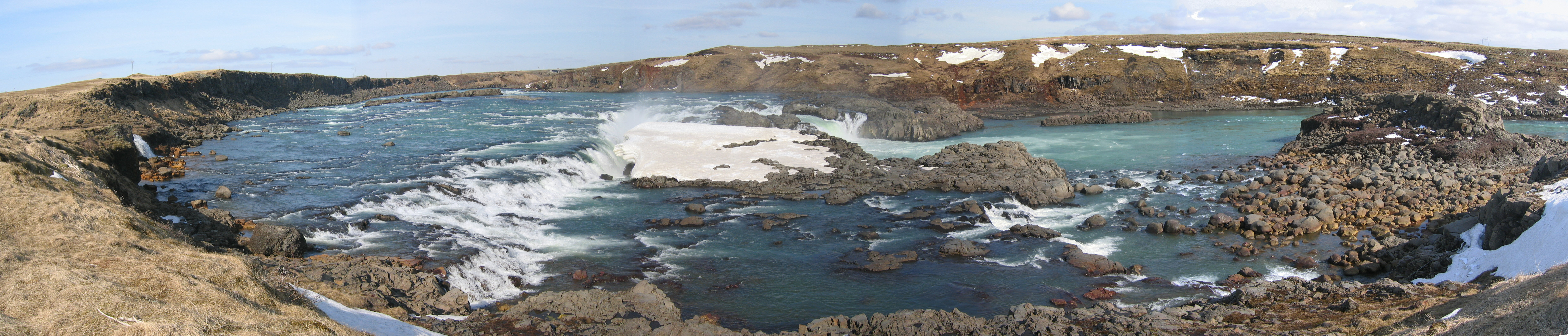 Urriðafoss in Southern Iceland. Three photos by Salvor stiched together.